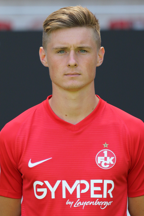 Carlo Sickinger (Nr. 25)